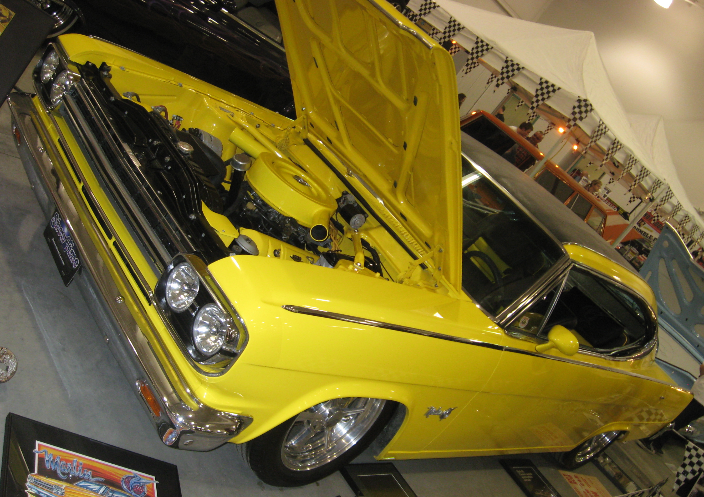 1966 AMC Marlin with 327 V8 & twin-snorkle intake, shot at Draggins 50h anniversary show, Praireland Exhibition, Saskatoon, 3 April 2010. (Note: this vehicle has been lowered and customized with special paint, wheels, outside rearview mirror, and engine compartment trim)